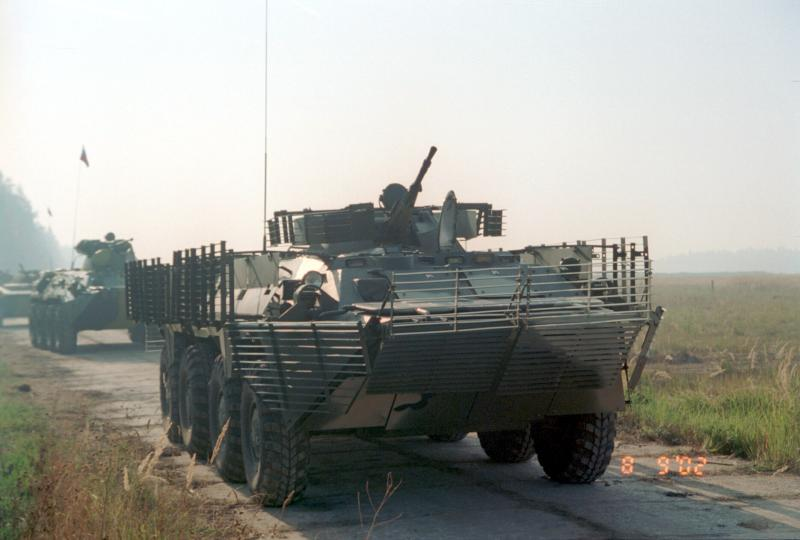 BTR-80 with slat armor.